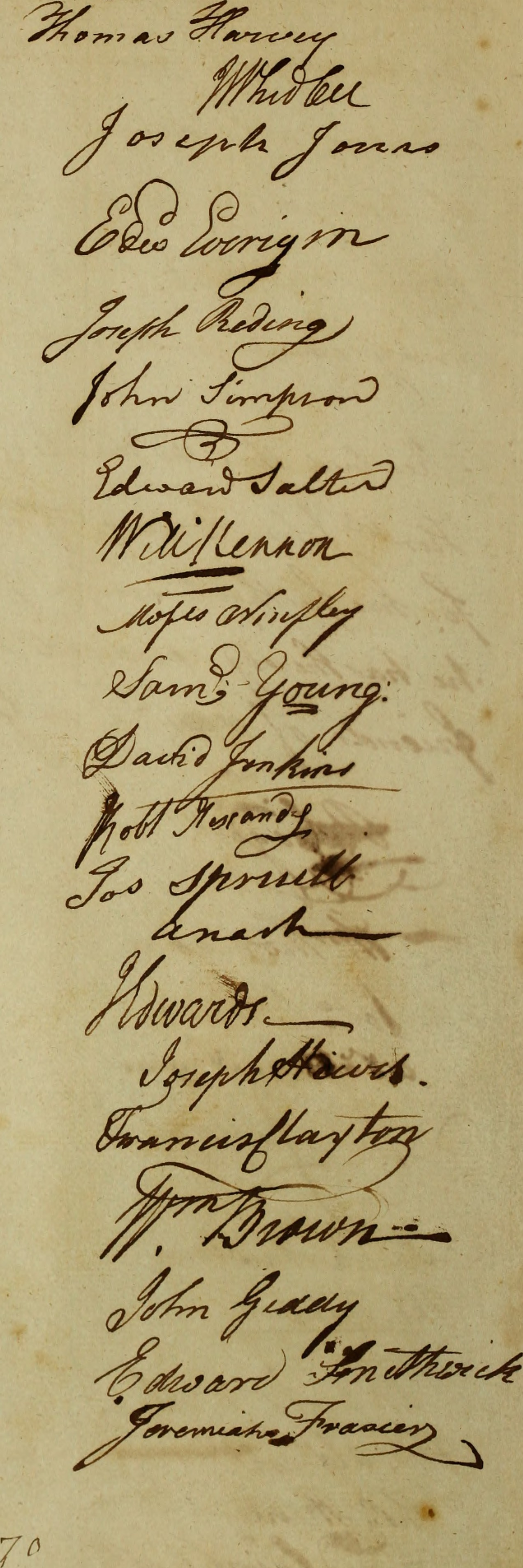 Title: Journal of sessions and votes (manuscript) Year: 1774 (1770s) Authors: North Carolina. Provincial Congress Boston Public Library. American Revolutionary War Manuscripts Collection Subjects: Publisher: New Bern, N.C. Text Appearing Before Image: ' Text Appearing After Image: '